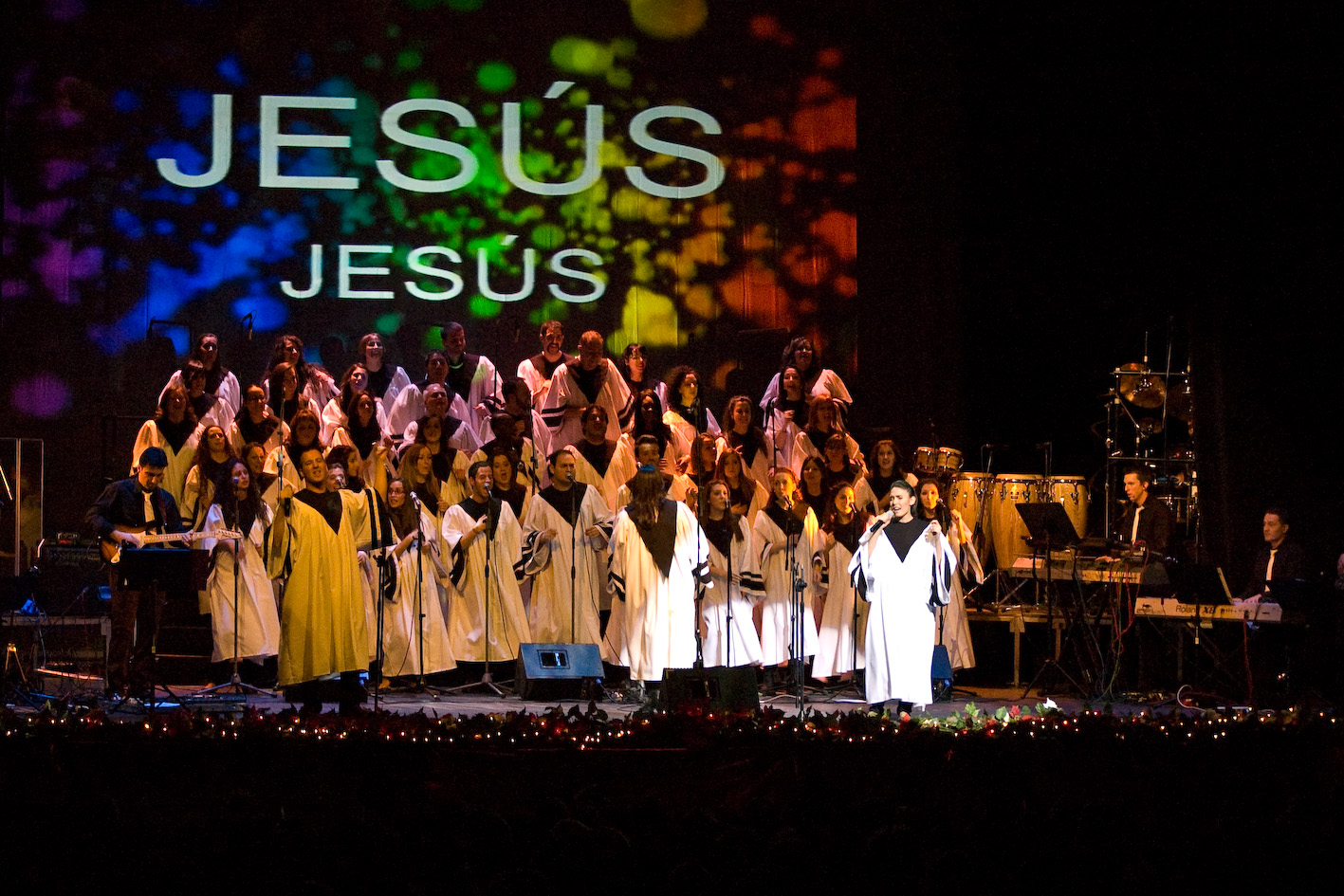 Gospel living water